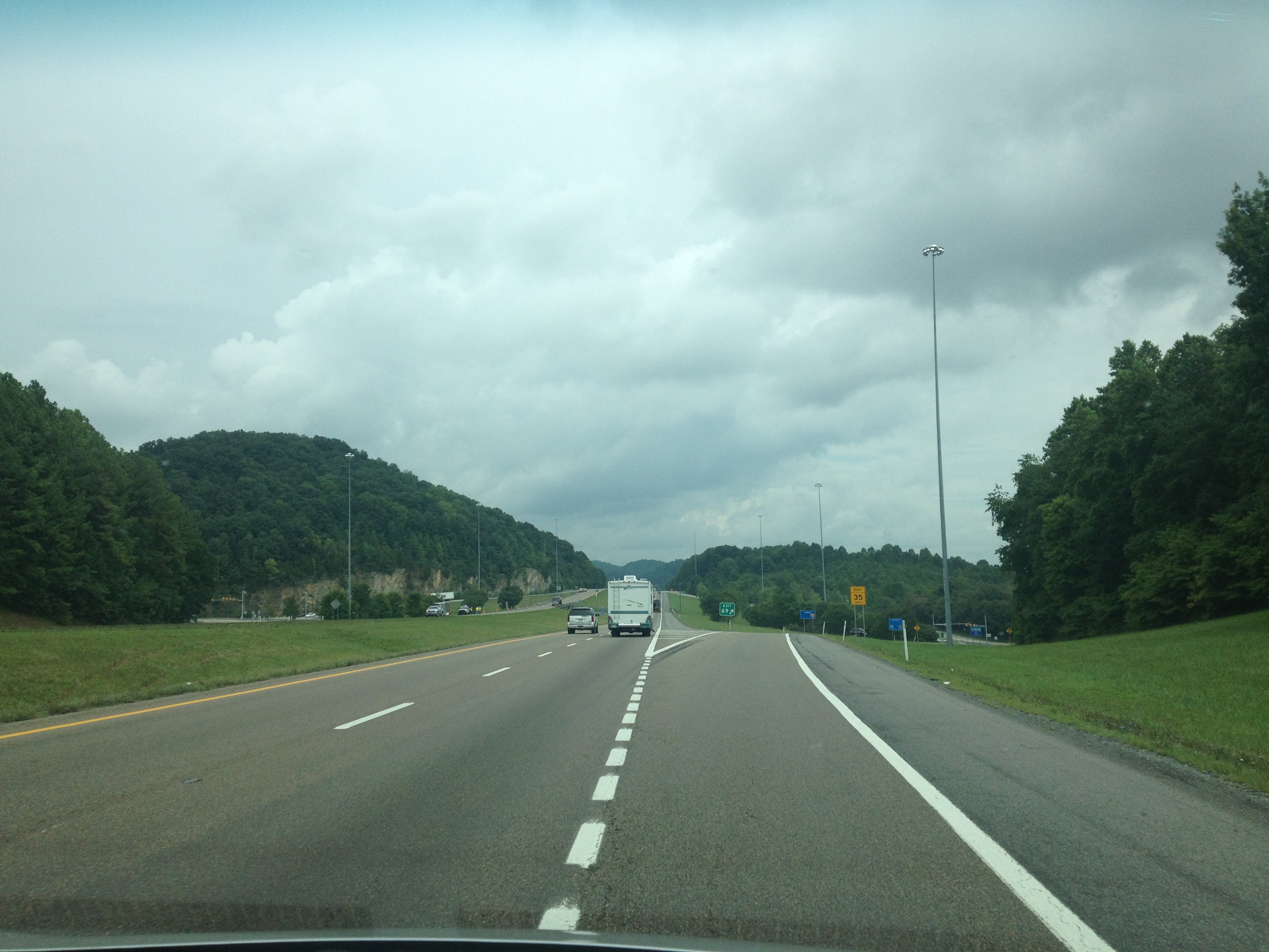 Northbound Interstate 81 at the exit for Tennessee State Route 394 (exit 69) in Blountville, Tennessee